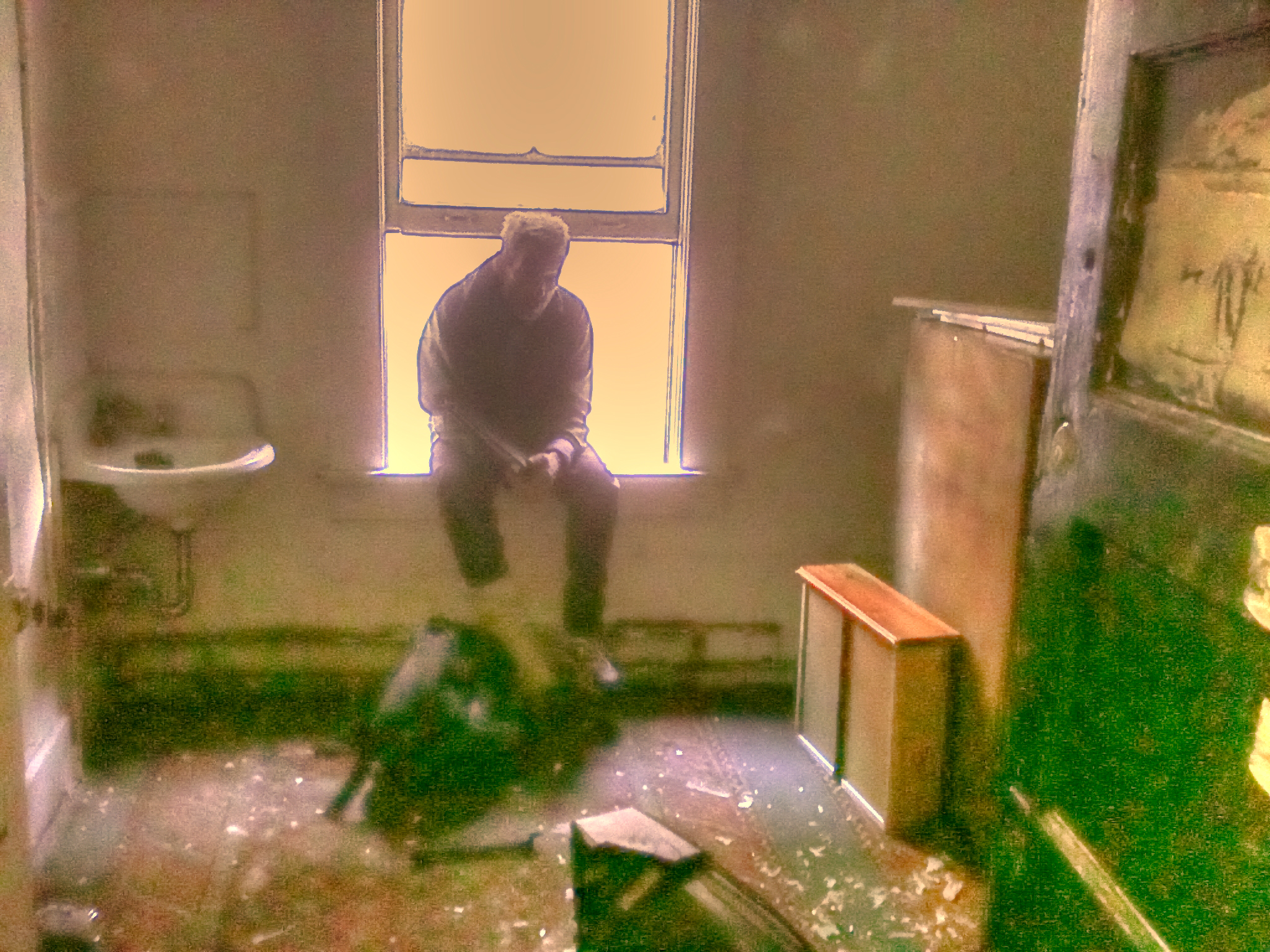 this is a vacant single room occupancy suite that i encountered on my census duties. the man sitting in the window, with the broken leg, resting on a dog, is the maintenance worker for his SRO hotel. he says you have to rip out the drywall and floor after every tenant from the abuse the room takes. the picture is from an iphone, so i needed to do some editing to bring out the information otherwise lost in the dark, and in so doing, gave this image a weird aged color bleeding silver print look.